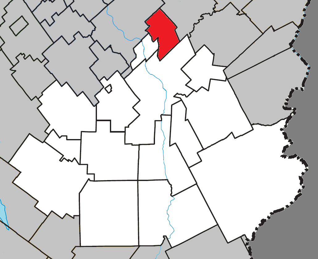 Location of Saint-Simon-les-Mines, Quebec within Beauce-Sartigan Regional County Municipality.